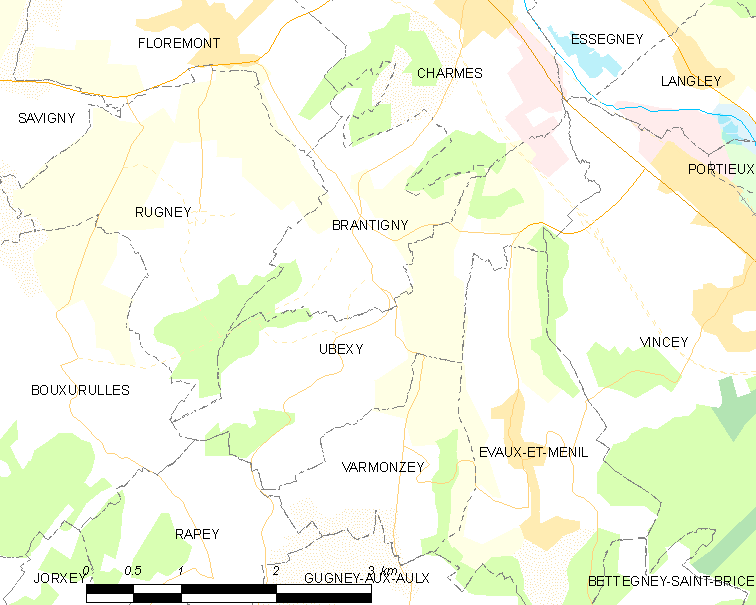 Map of French municipality Ubexy